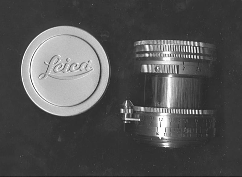 Leitz Summitar 50/2 lens for Leica LTM.